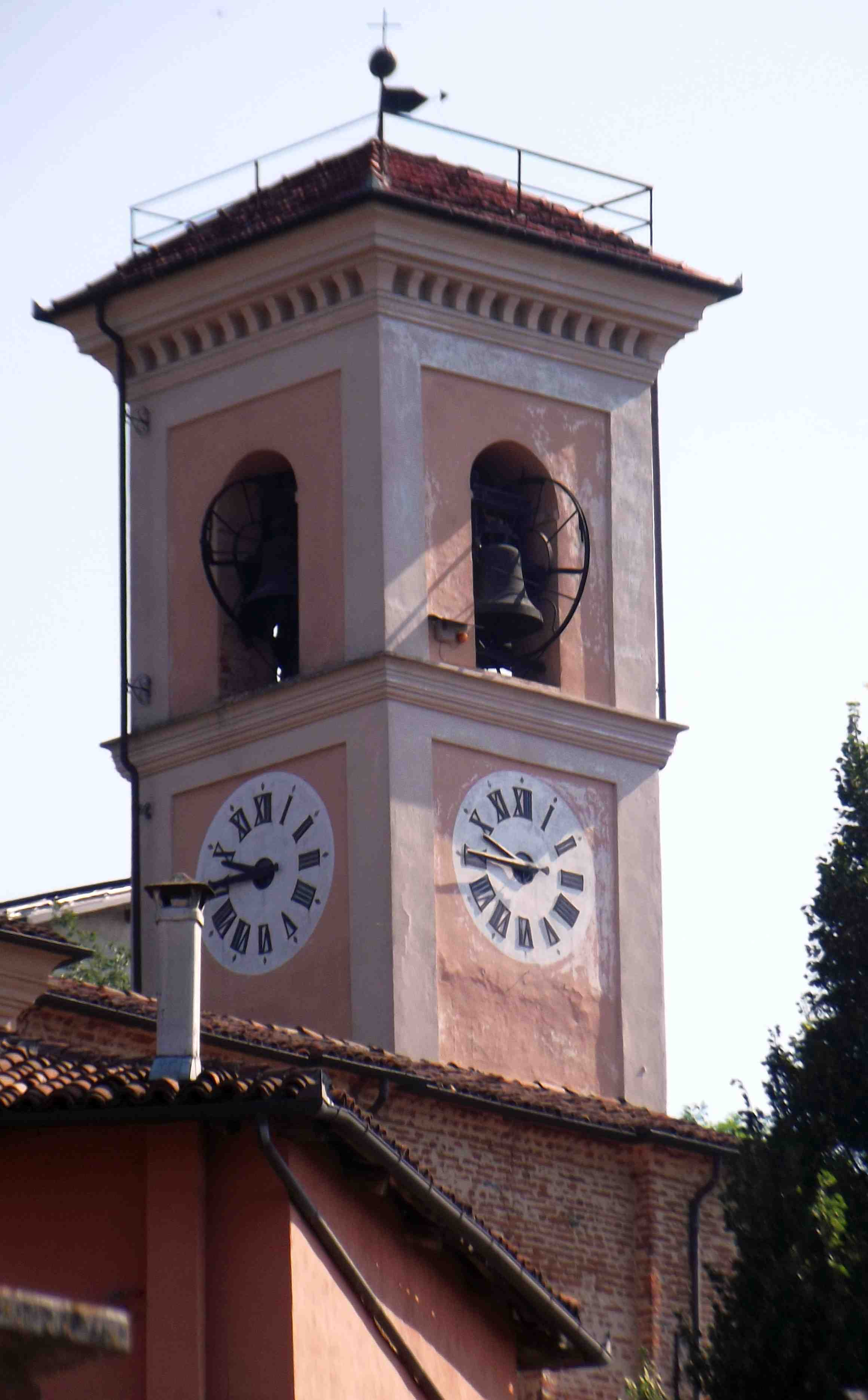 Baldichieri d'Asti (AT, Italy): bell tower